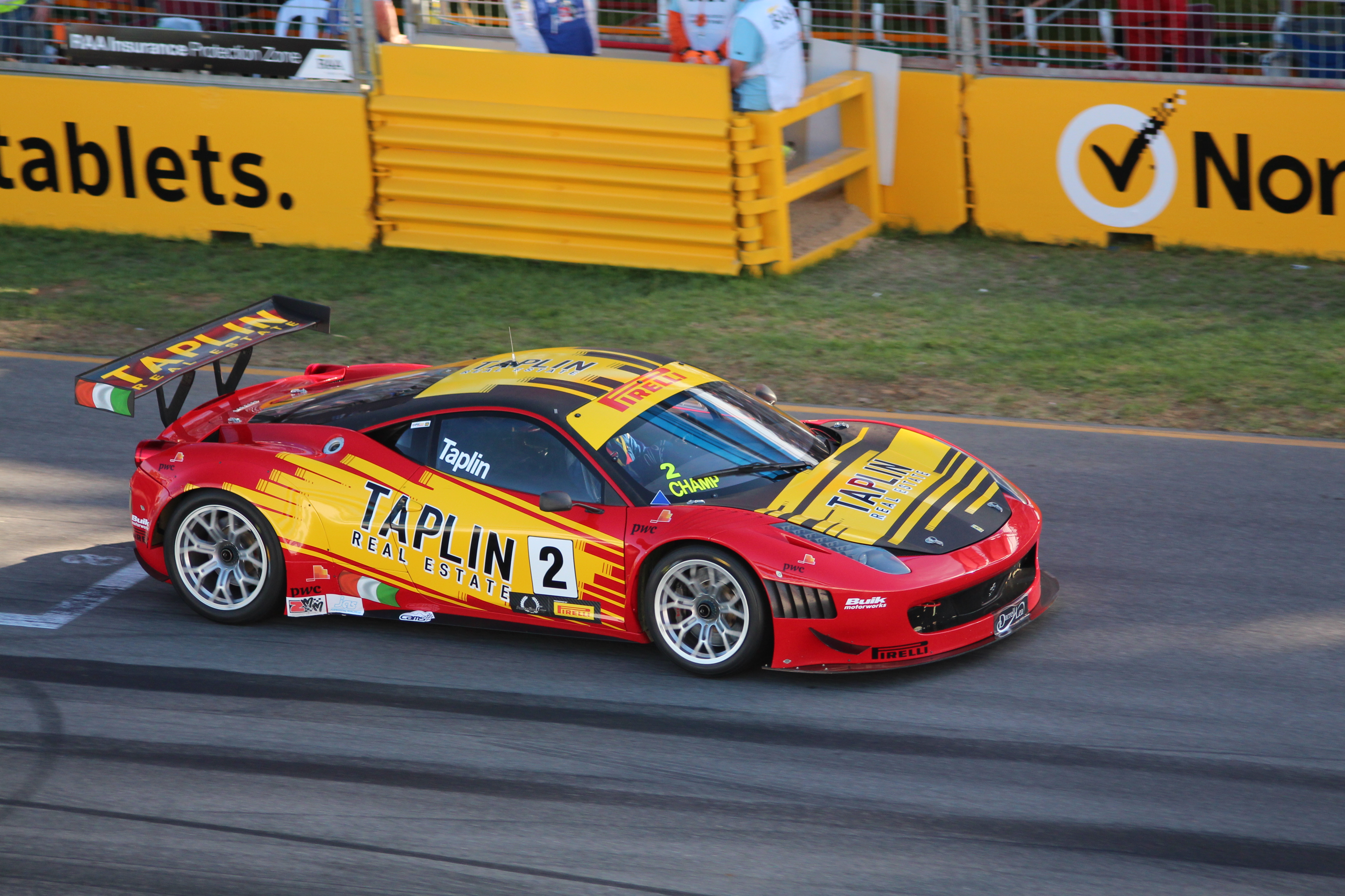 Ferrari 458 GT3 at the Clipsal 500 (2013).